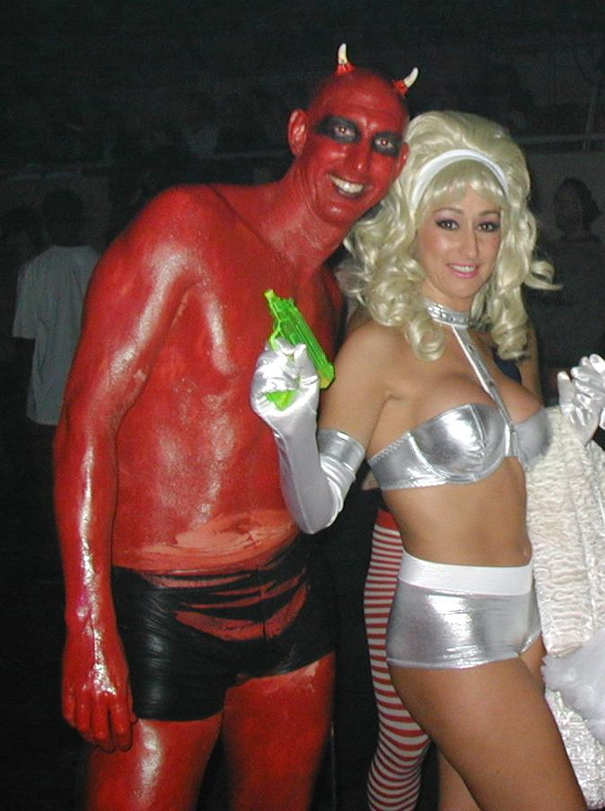 Devil and Barbarella. Costumers in San Francisco.